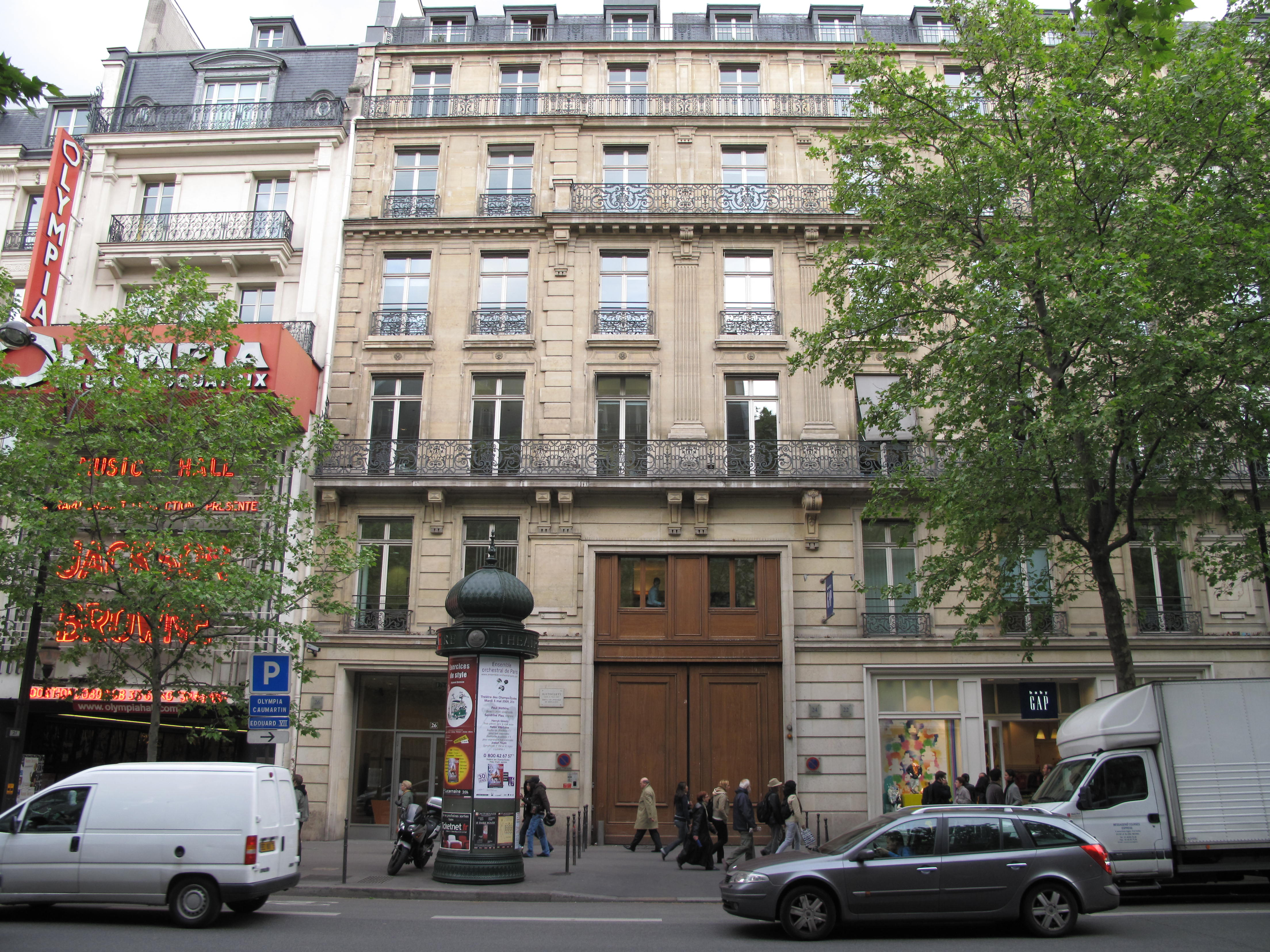 The flat where lived Mistinguett ; 24, boulevard des Capucines, Paris